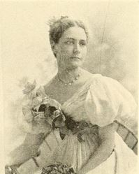 Miss Crosby Stuart Noyes